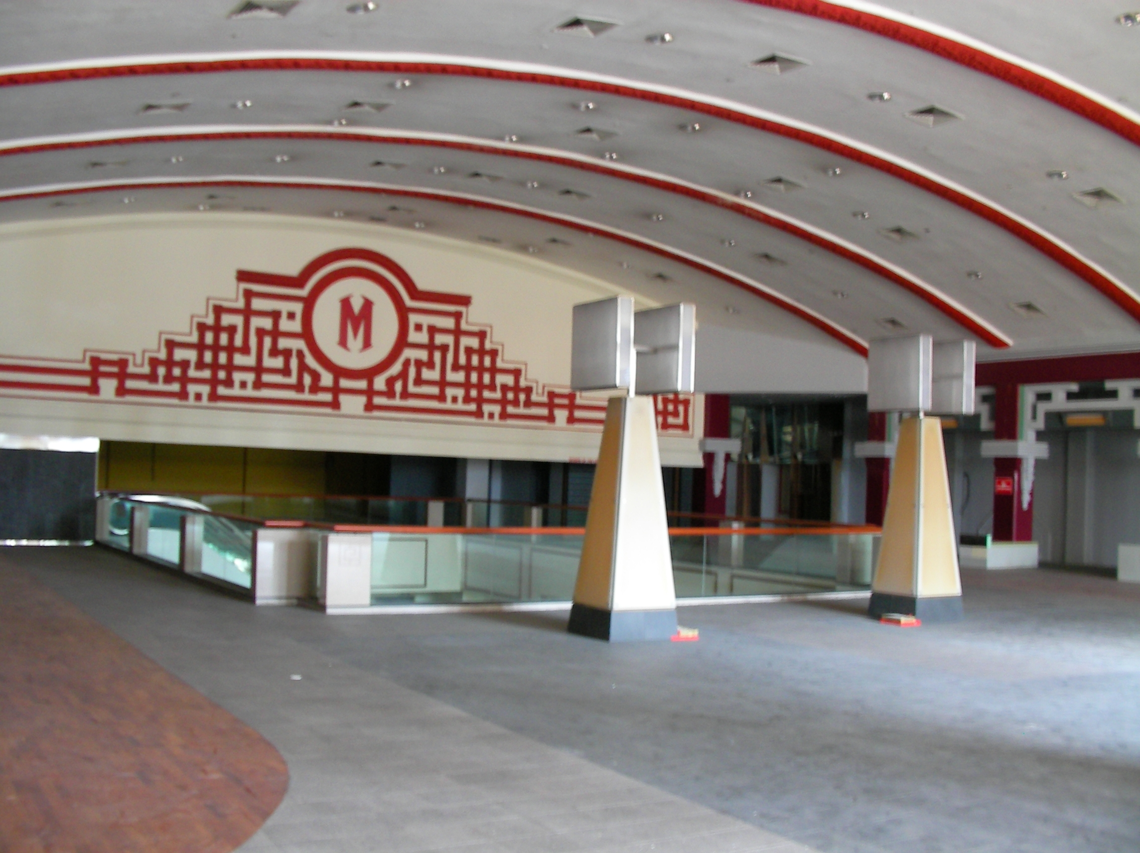 The Interior Architecture of The Majestic Theatre